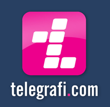 logo